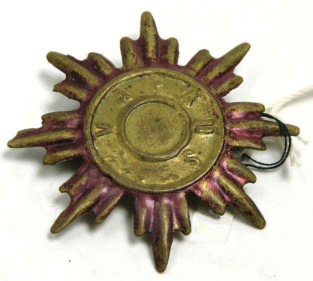 Turku Red Guard badge with text "VAPAUS" (liberty).